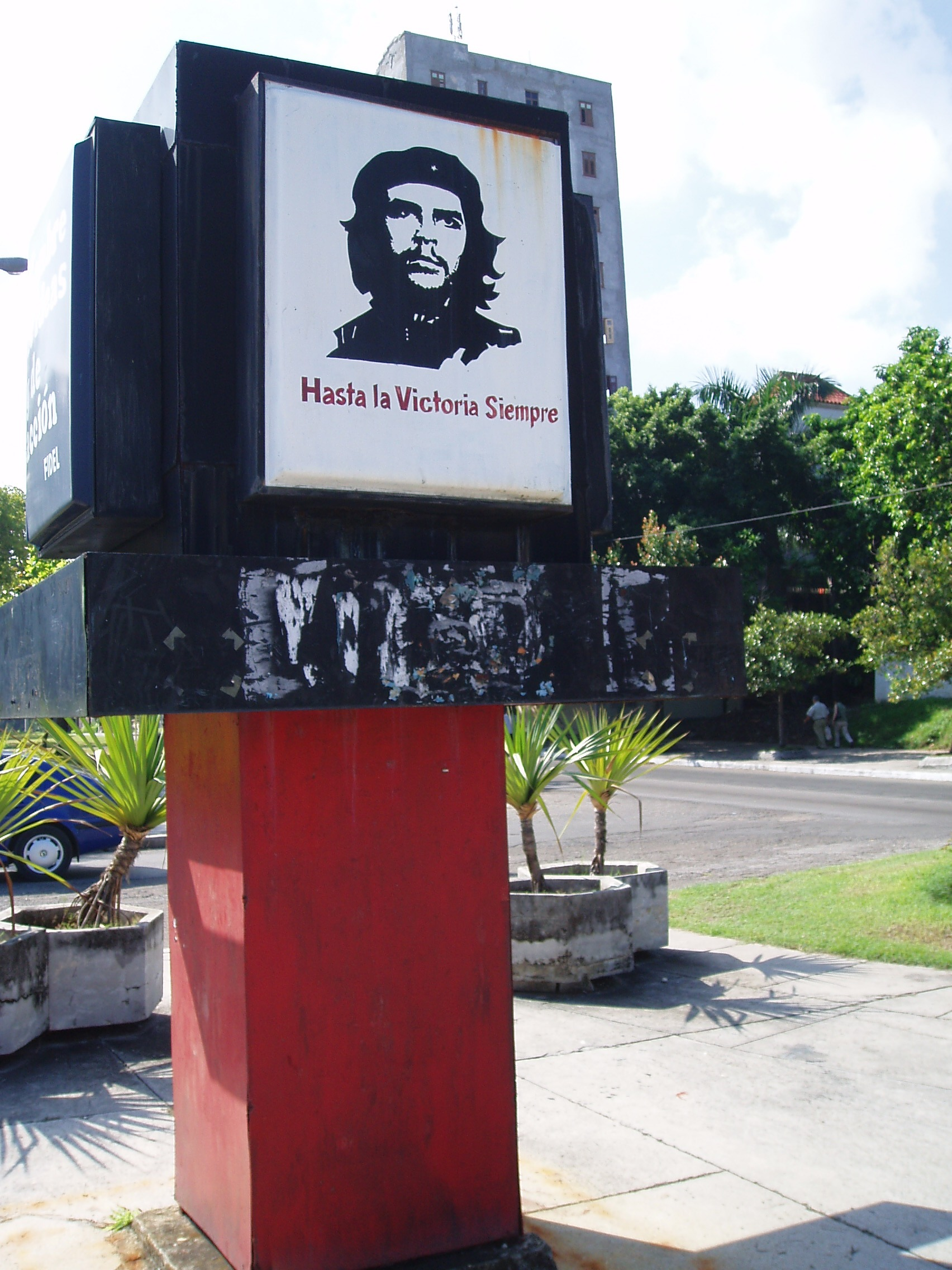 Che Guevara monument, La Habana, Kuba. Pomnik Che Guevary w Hawanie, Kuba.